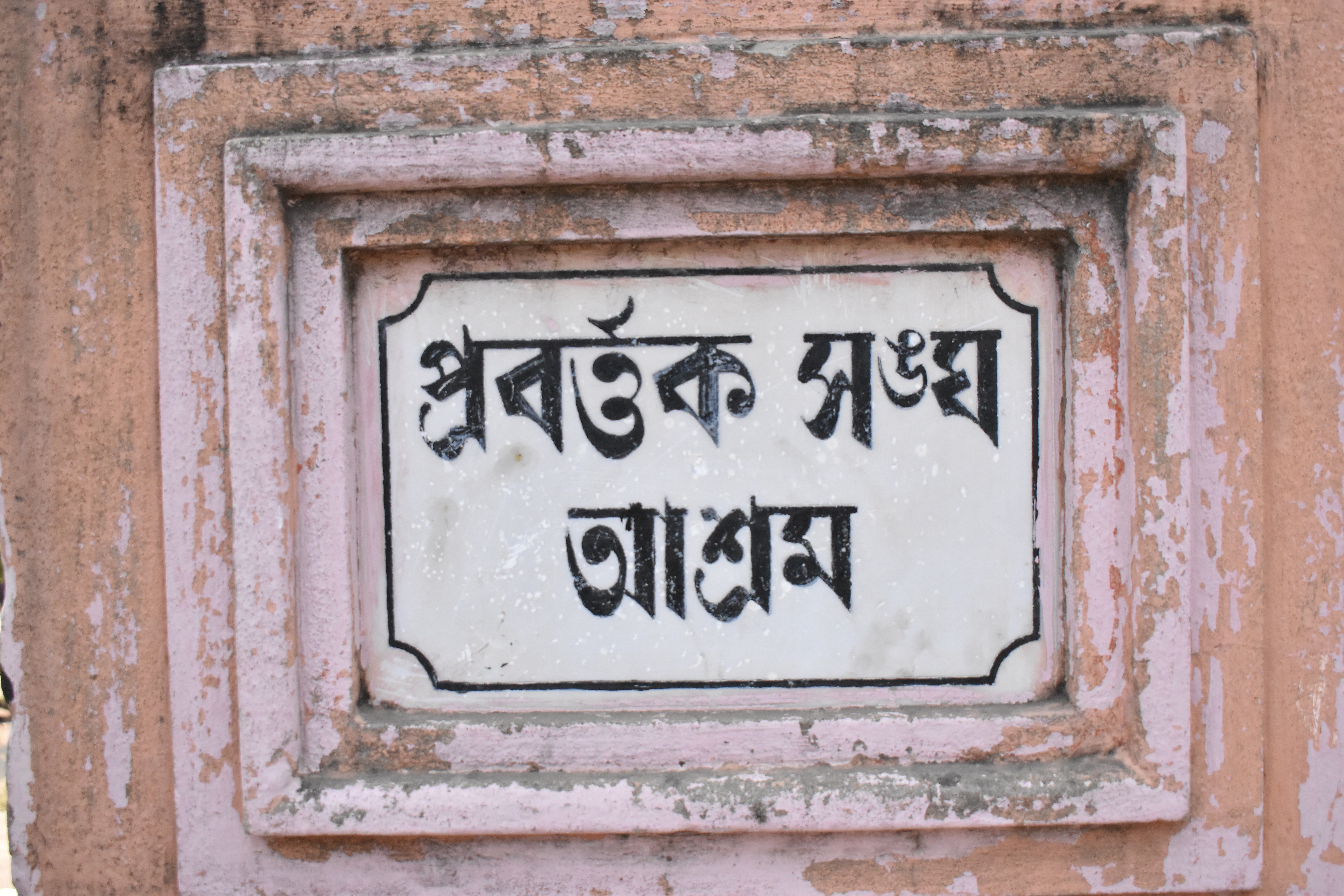 Prabartak Sangha, a nationalist organisation and House of Matilal Roy in Chandannagar, Hooghly district.